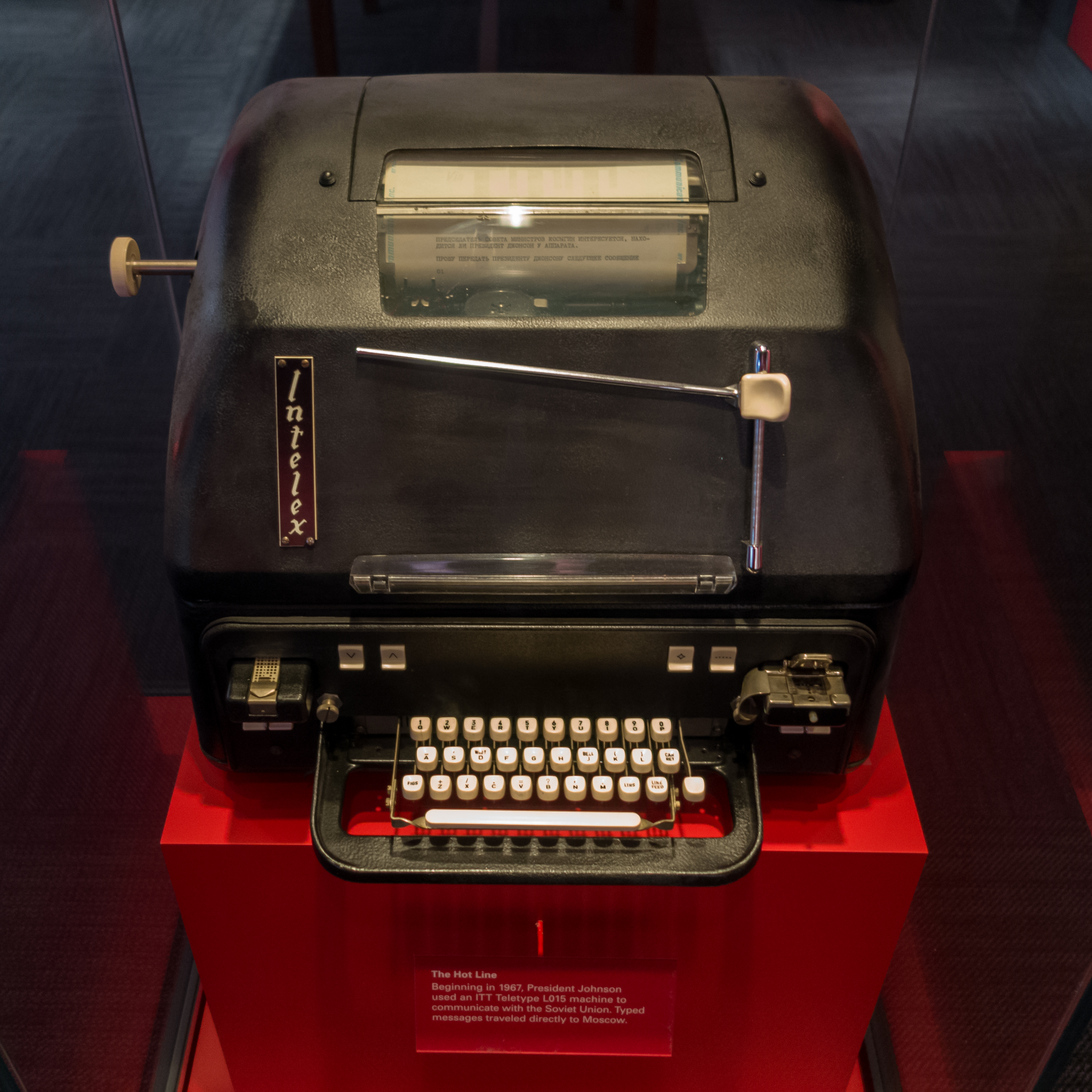 Moscow-Washington teletype hotline, 1967 at the LBJ Presidential Library.